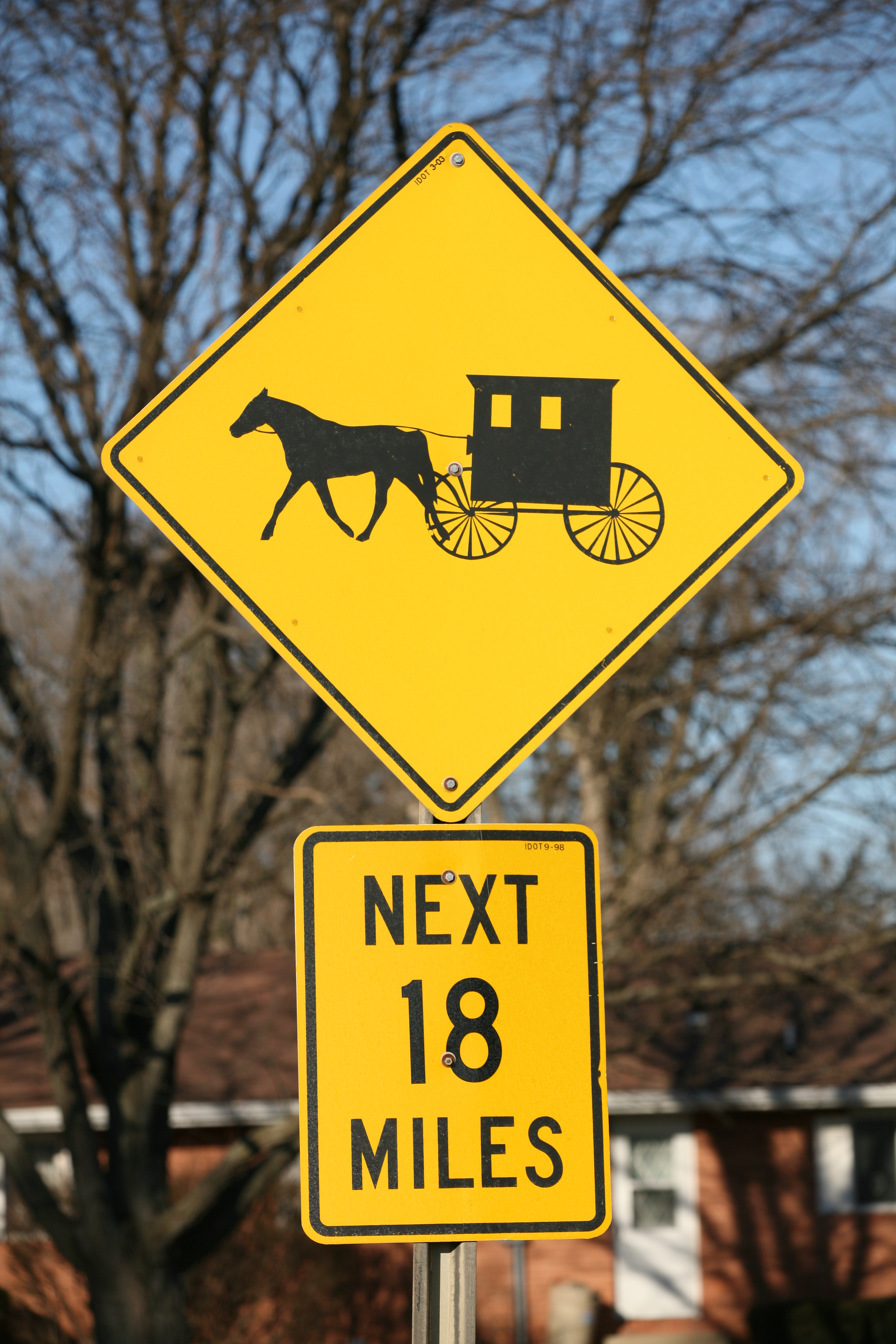 Traffic sign alerting drivers for Amish Buggies on the road, near Arcola, Illinois